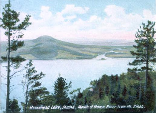 Mouth of Moose River from Mount Kineo, Moosehead Lake, Maine; from a c. 1905 postcard.